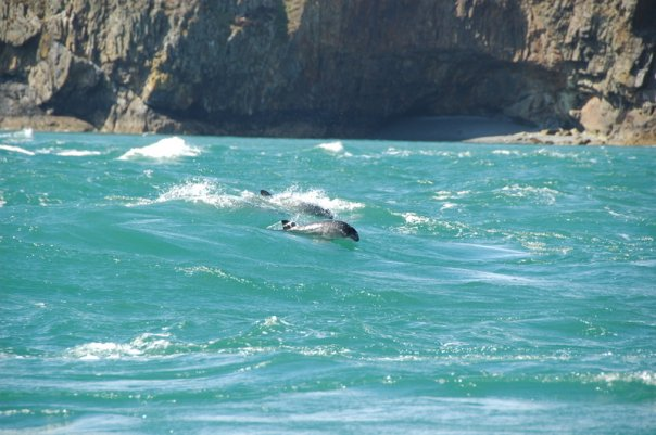 Taken by myself in Ramsey Sound, UK.